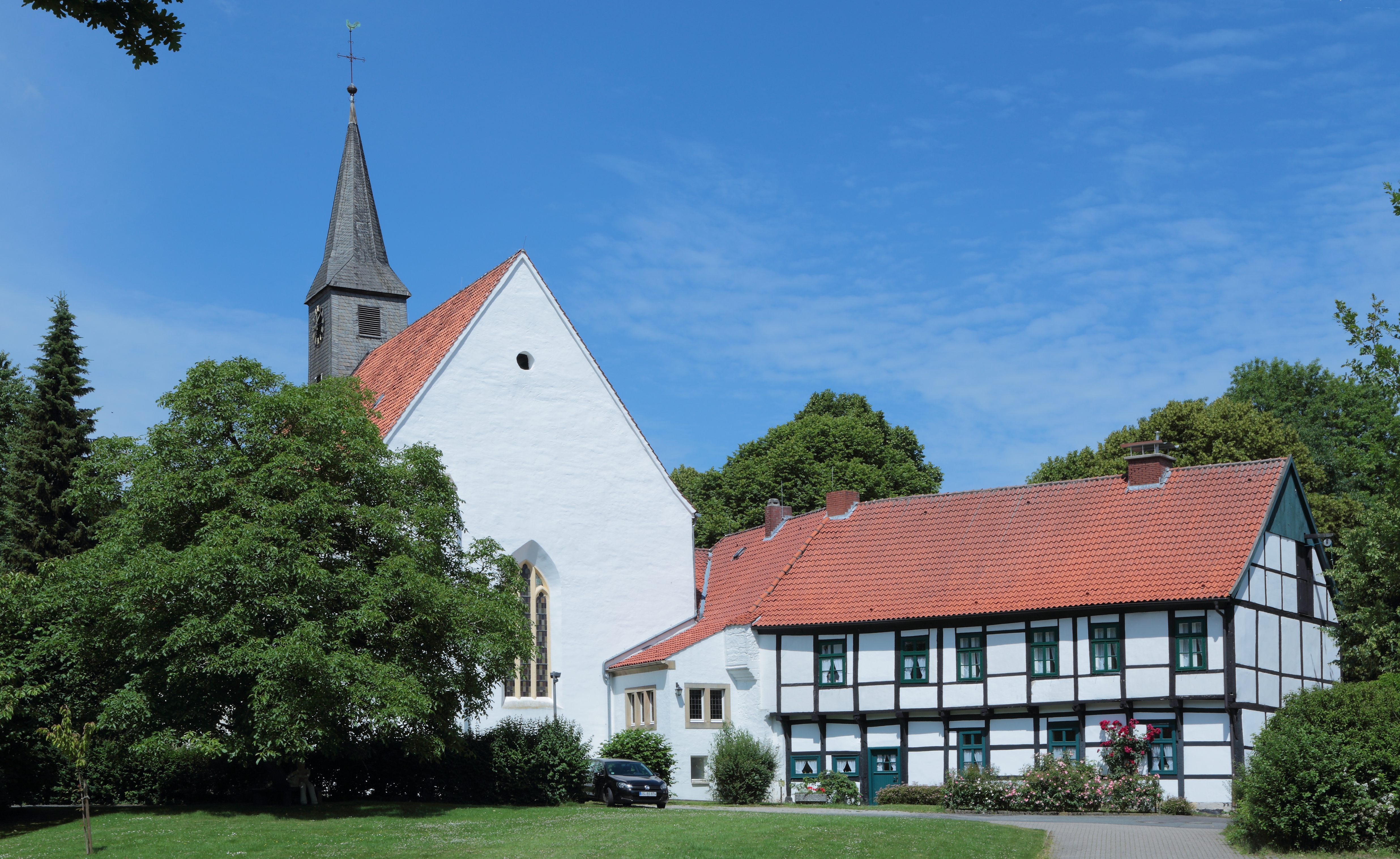 The Protestant Stiftskirche and the Stiftshof in Tecklenburg-Leeden, Kreis Steinfurt, North Rhine-Westphalia, Germany.